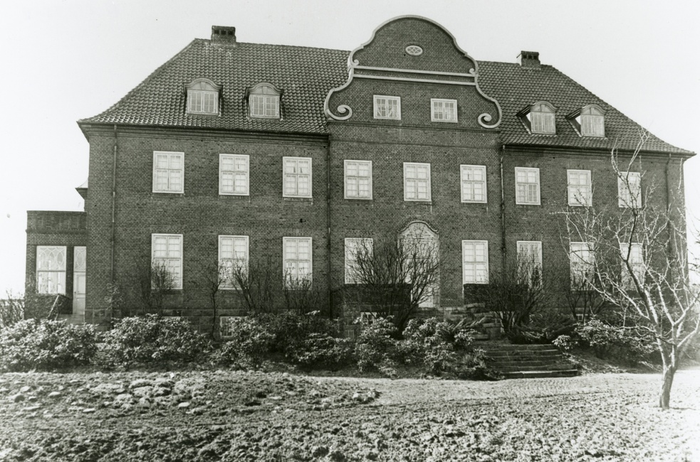 Mansion at Kildegårdsvej 71, Gentofte. Built 1916-17 by architect Christian Olrik. Police headquarters from 1949 through 2010.